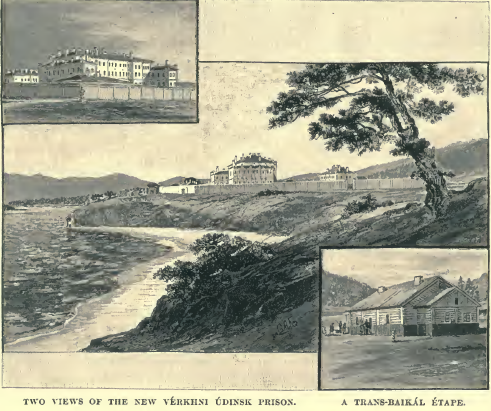 Ulan-Ulde, 1885